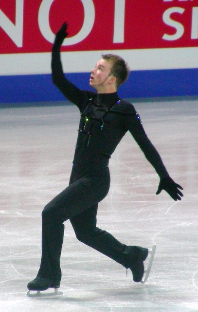 Stefan Lindemann on the 2007 European Figure Skating Championships in Warsaw - free skate